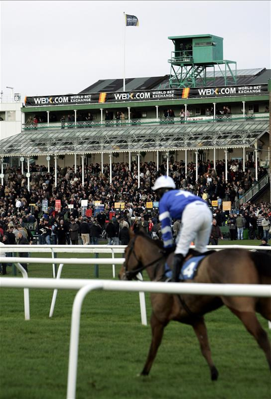 This a picture of Newcastle Racecourse at the 2007 Fighting Fifth